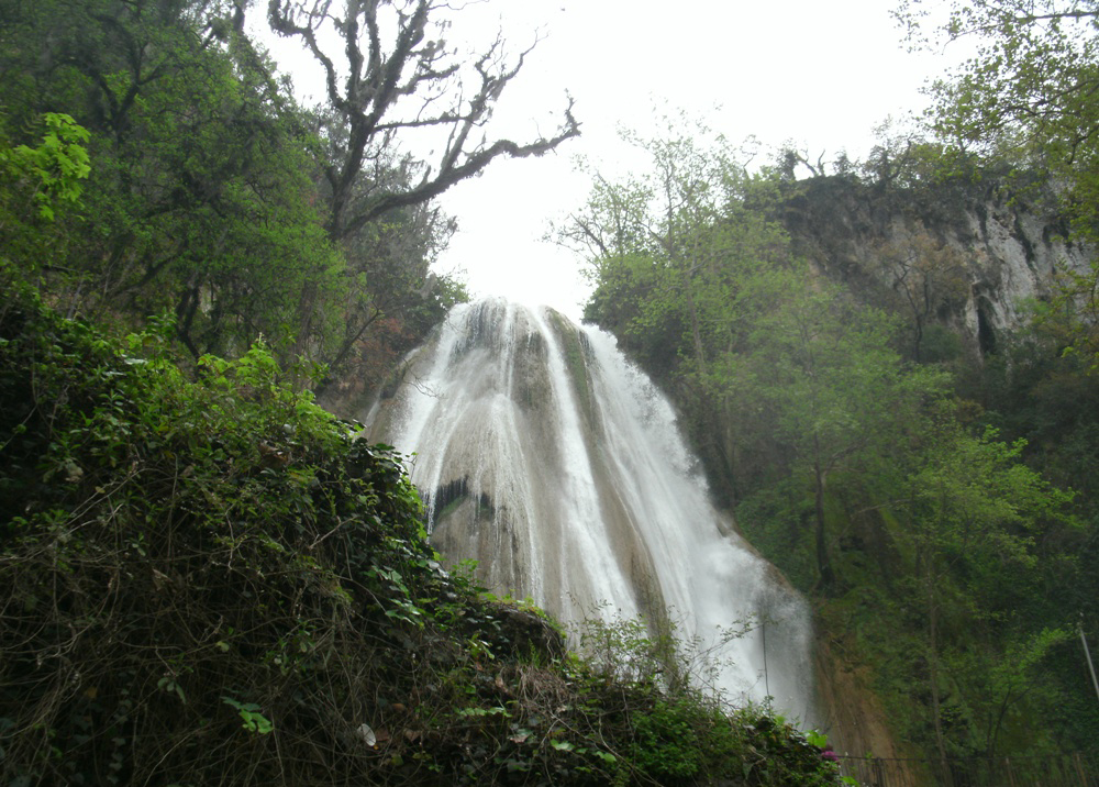 Waterfall in Mexico